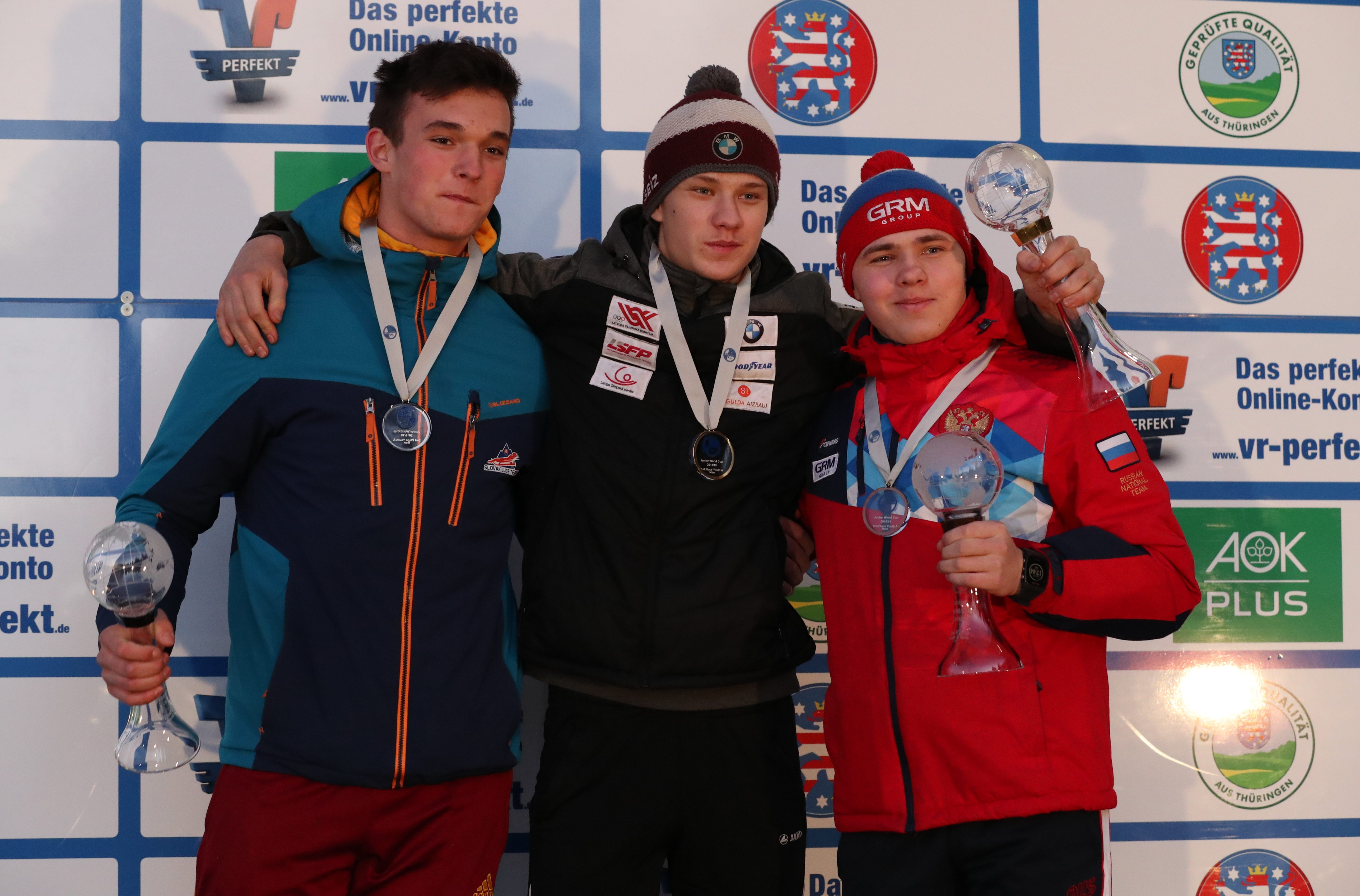 Fridays Victory Ceremonies at the 2018/19 Juniors and Youth A Luge World Cup in Oberhof